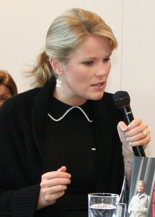 Stephanie Guttenberg, wife of German Defense Minister Karl-Theodor zu Guttenberg, speaks at the Frankfurt Book Fair about her book Schaut nicht weg! (Don't Look Away!), which addresses the issue of sexual abuse of children in Germany